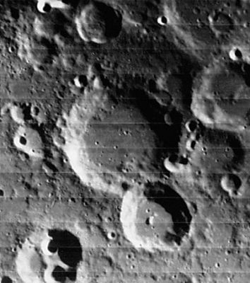 Nearch lunar crater LOIV 070 H3 image